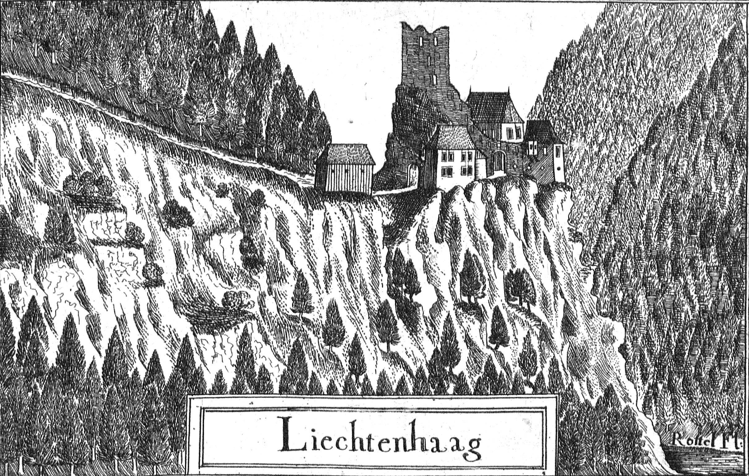 Castle Lichtenhag in Gramastetten (Upper Austria), drawn by G. M. Vischer 1674